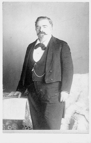 German and American flutist and teacher Carl Wehner (1838–1912)